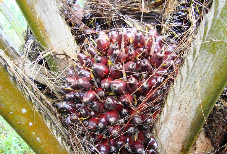 Oil palm fresh fruit bunches are still on the tree.